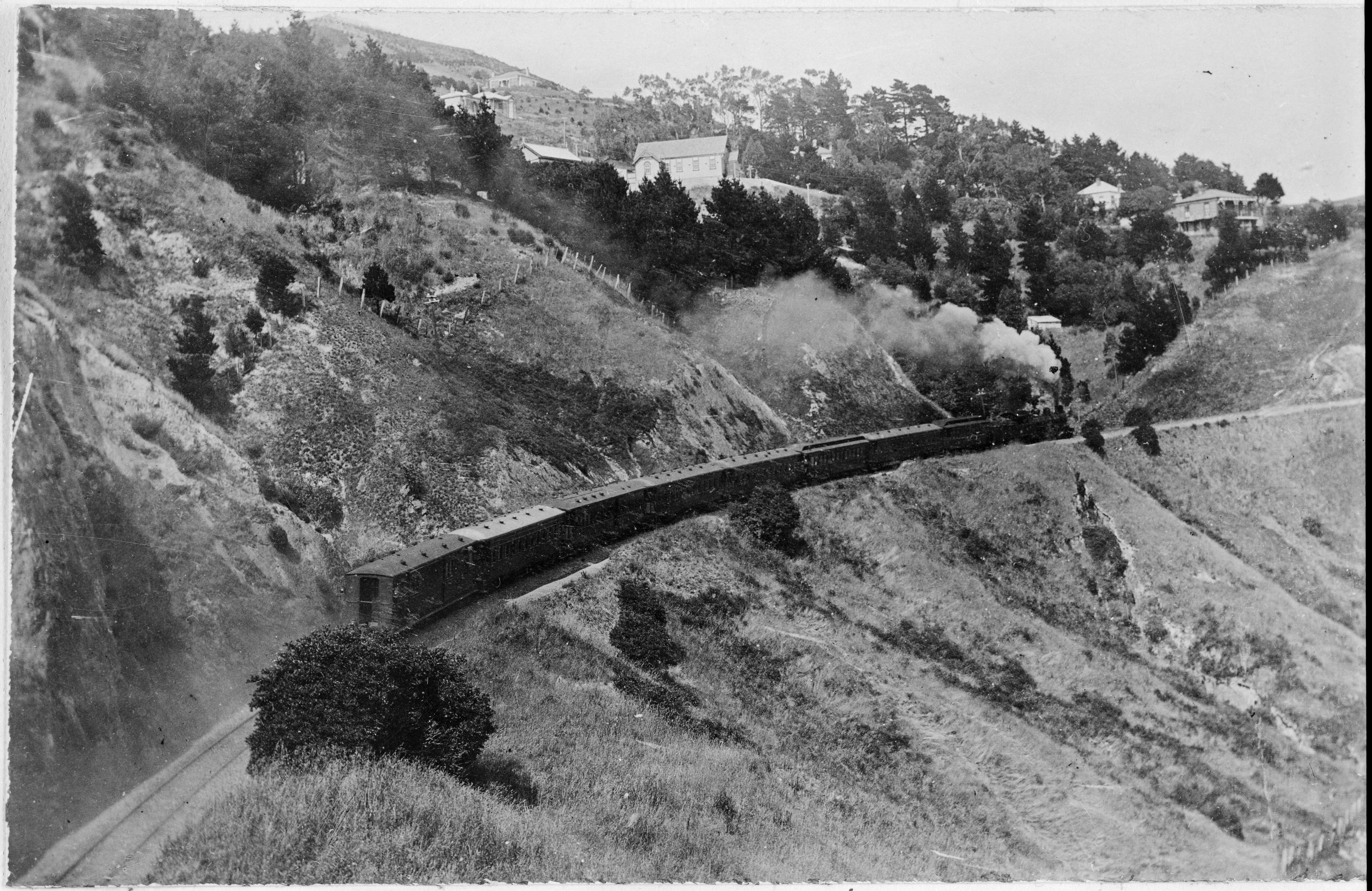 The Napier Express train nearing Ngaio (Crofton), on 1st January 1911. Photographed by Albert Percy Godber. This film copy negative is taken from the print in the Godber Album Vol 110, p 109 (PA1-q-103)